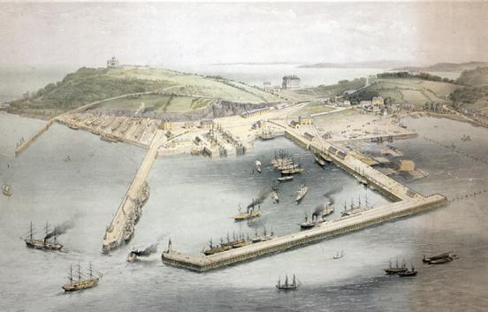 Aerial view of Arwenack (post-1863), later Falmouth, in Cornwall. At left on top of the hill is Pendennis Castle. At right by the shore is Arwenack House. In centre is Falmouth Docks. The prominent building in the dip (upper centre right) is the Falmouth Hotel, the first substantial building on the "neck" of Pendennis. It was built 1863-1865.